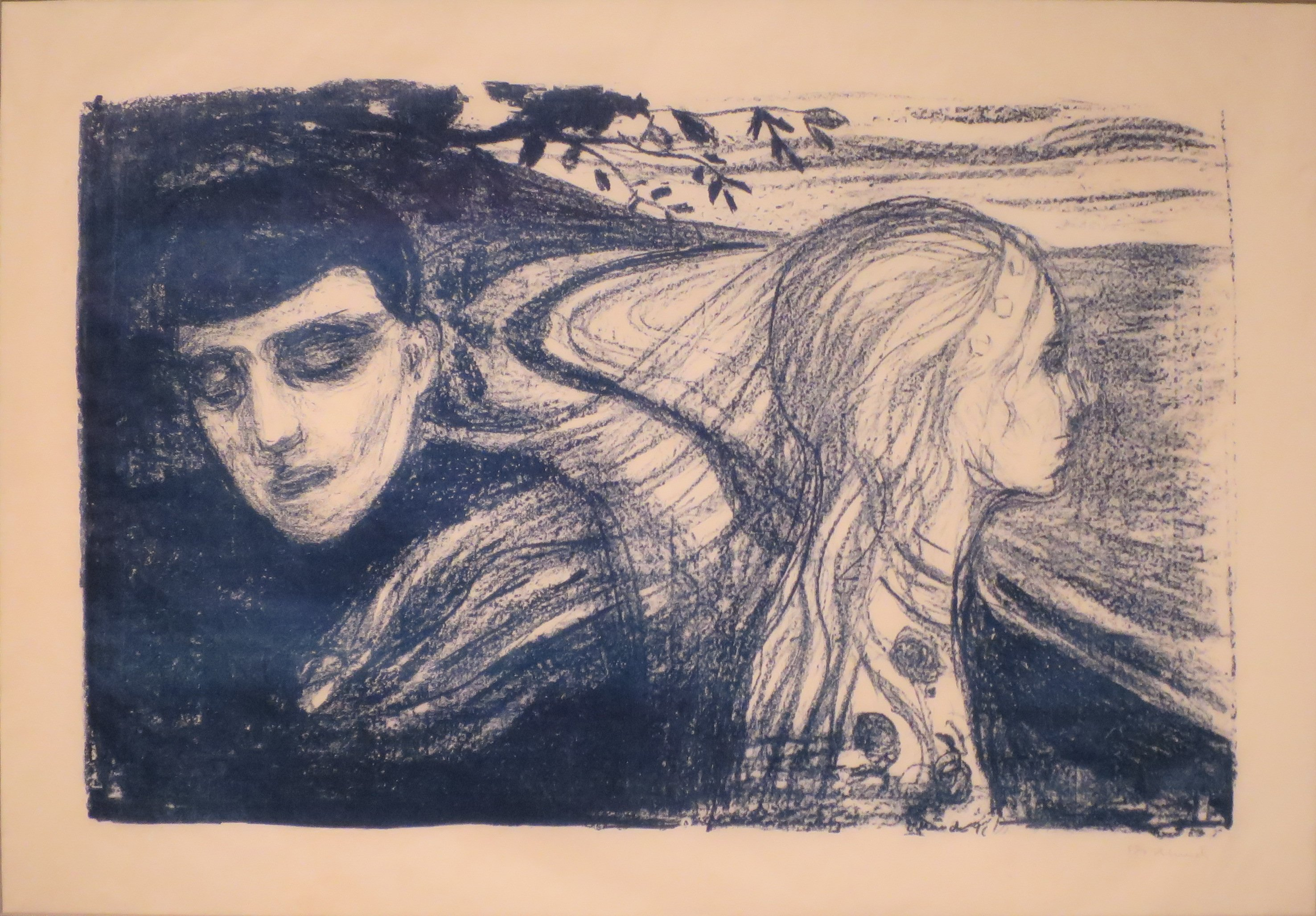 Separation II by Edvard Munch, 1896, lithograph, Bergen Kunstmuseum